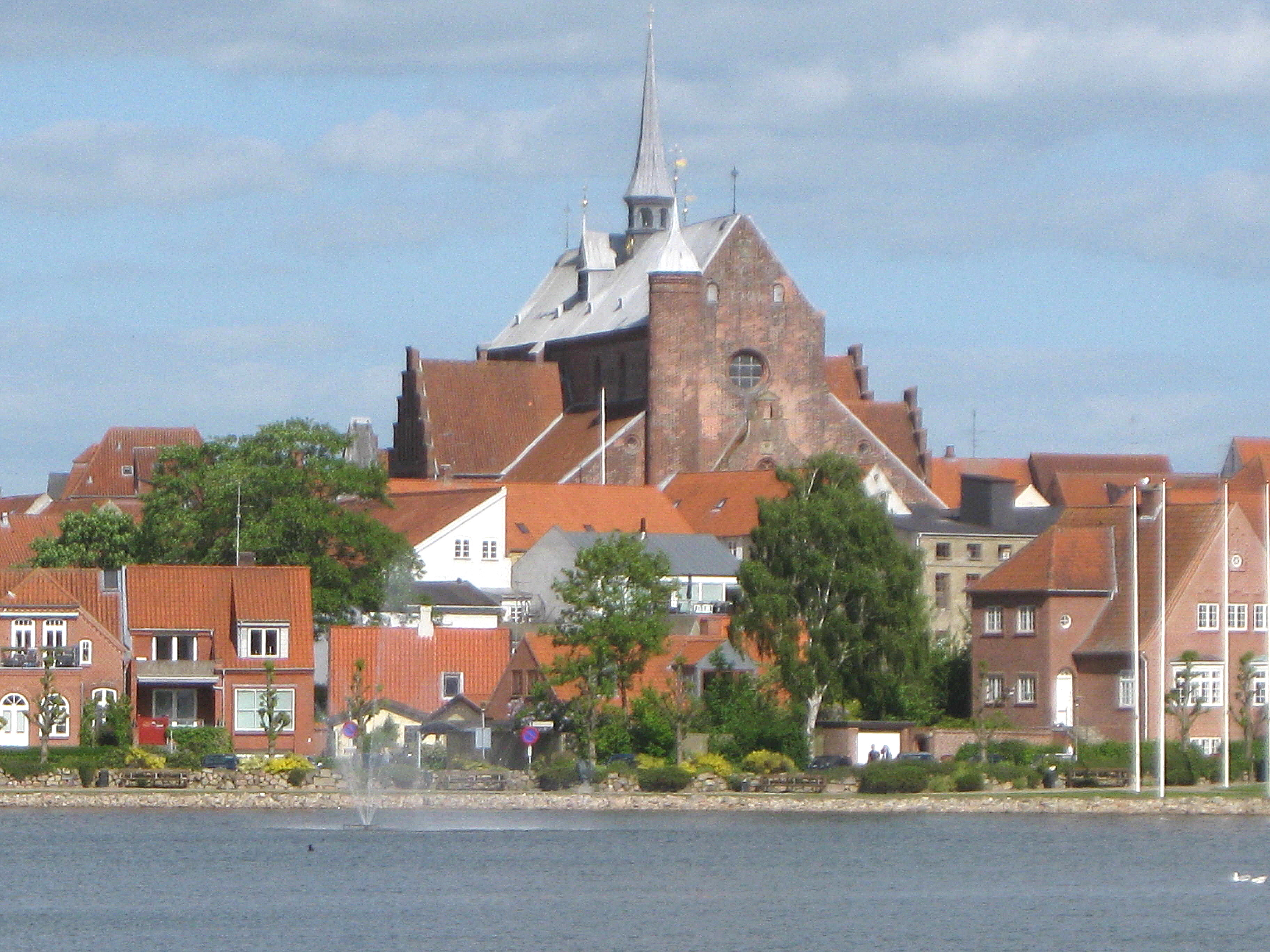 The cathedral "Haderslev Domkirke" in the town "Haderslev". The town is located in Southern Jutland, Denmark.